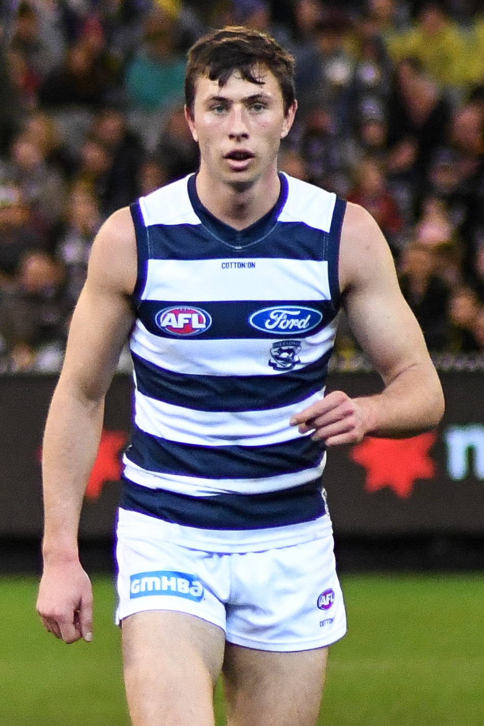 Jack Henry of Geelong during the 2018 AFL round 20 match between Richmond and Geelong at the Melbourne Cricket Ground on Friday, 3 August 2018 in Melbourne, Victoria.